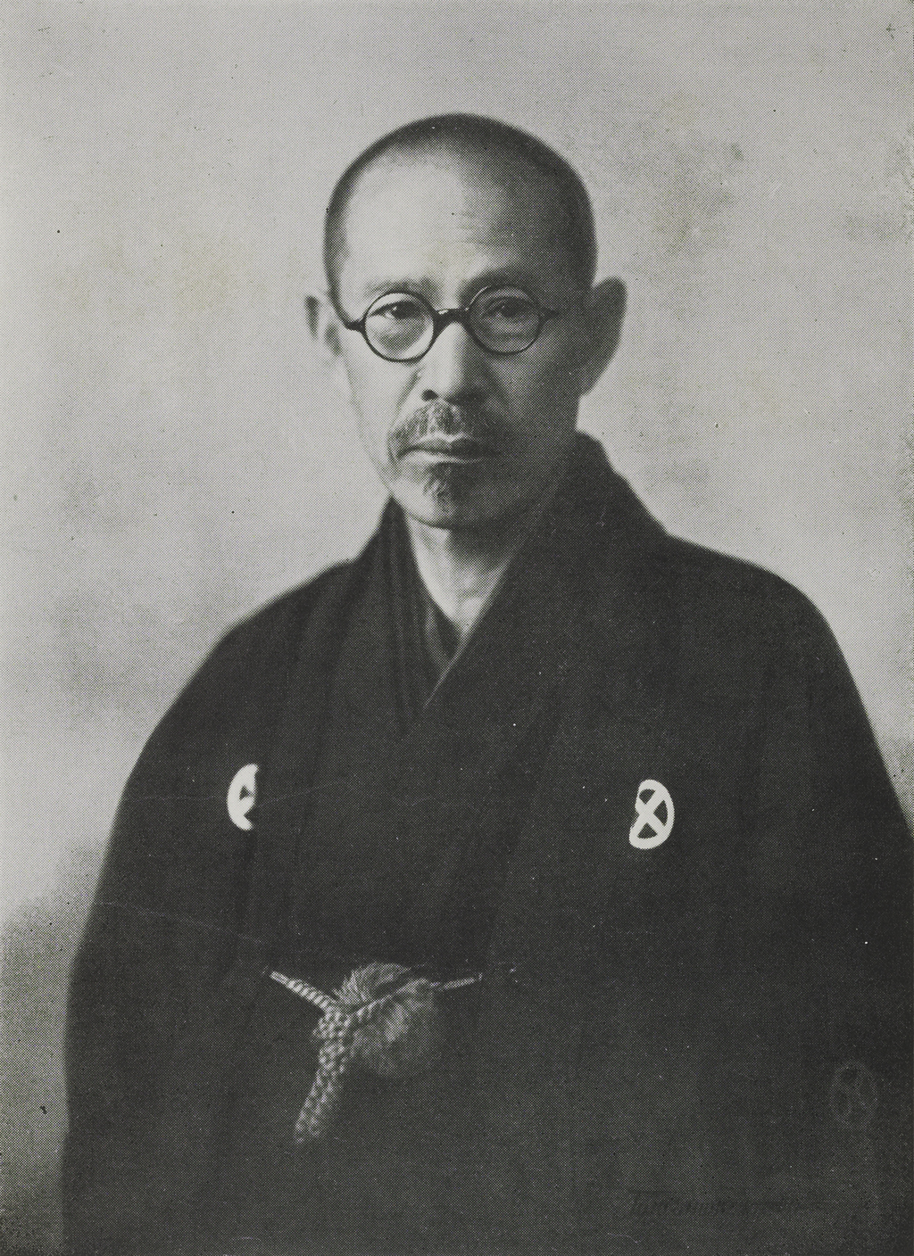 Portrait of Tanabe Harumichi (田辺治通, 1855 – 1950)